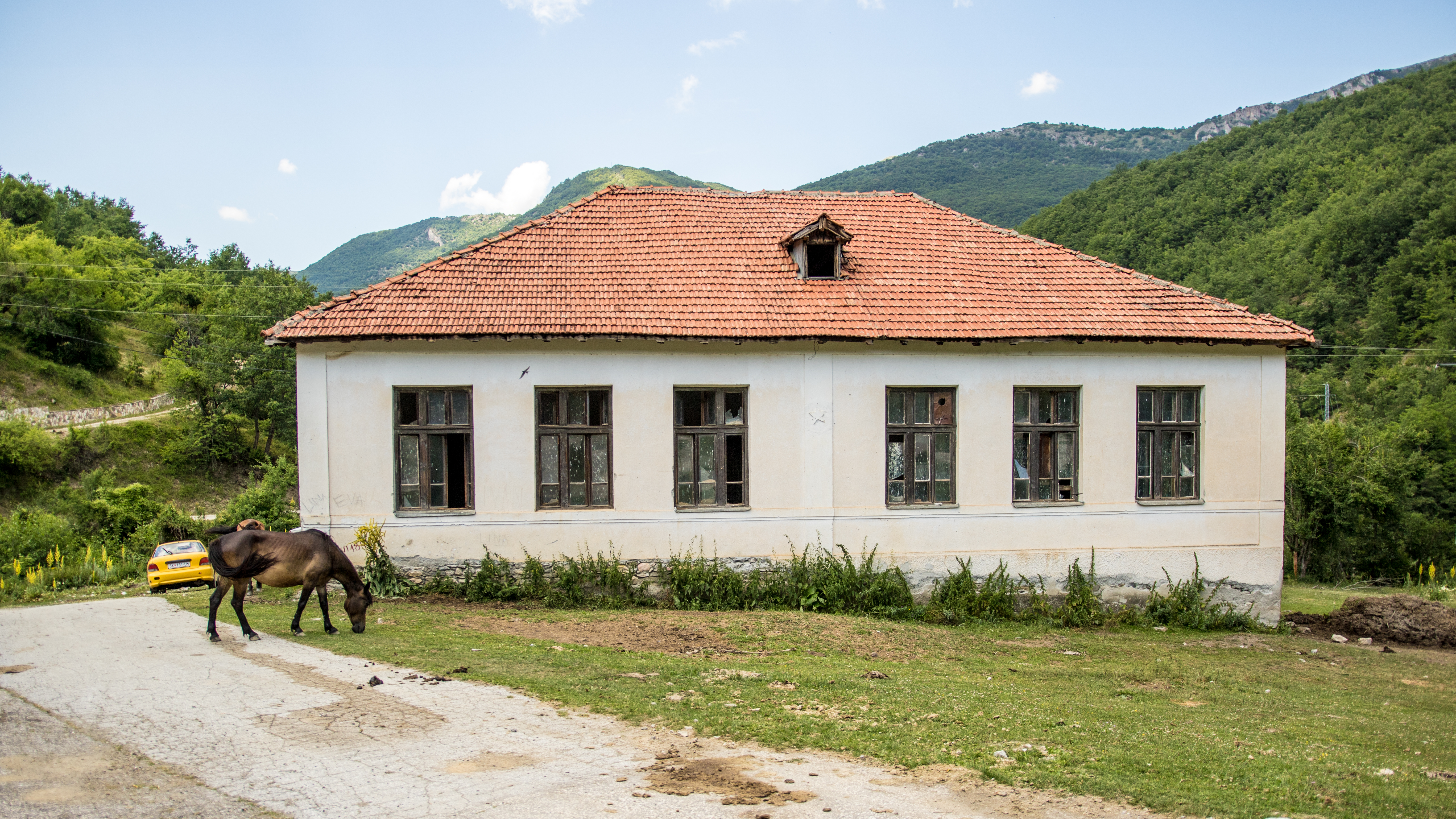 Old school in the village Tresonče